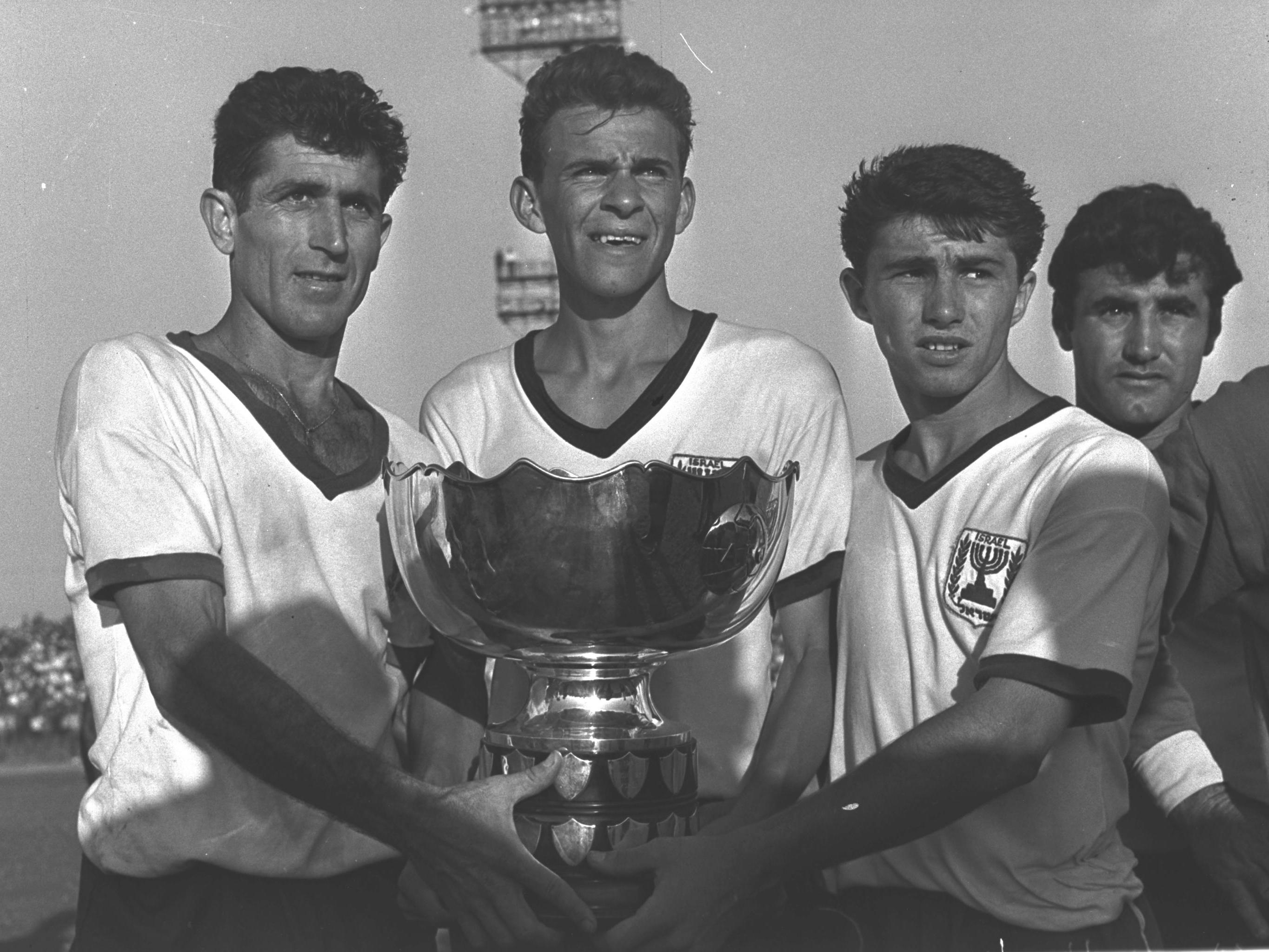 ISRAELI SOCCER PLAYERS HOLDING THE ASIAN CUP AFTER THEIR VICTORY OVER SOUTH KOREA AT THE RAMAT GAN STADIUM.